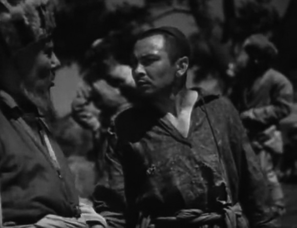 Scene from the film Салават Юлаев (Salavat Yulayev, 1941)